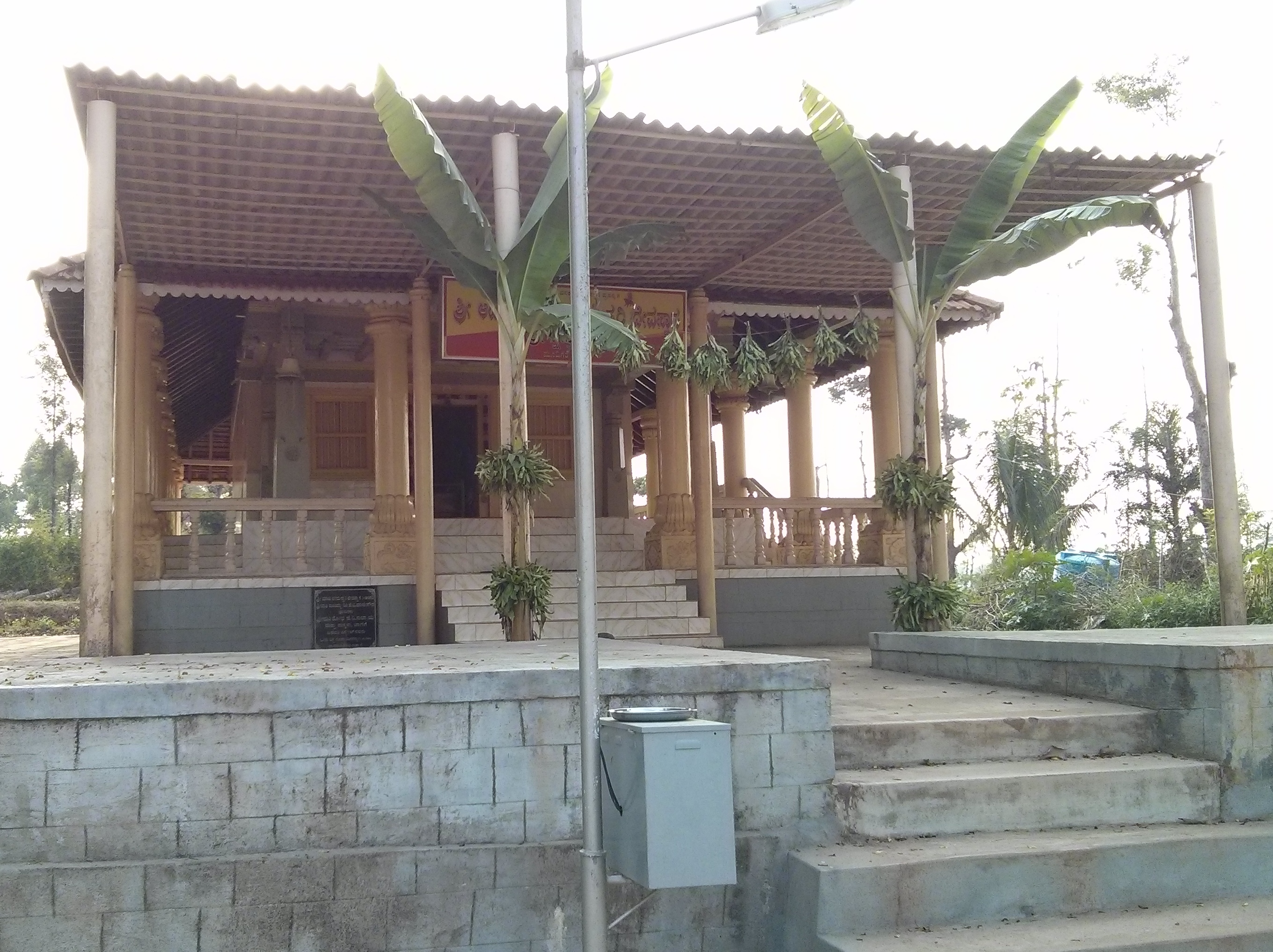 sri adhishakthi vasantha parameswari temple